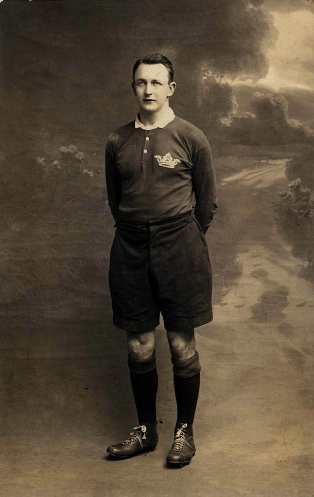 Arthur Cooper "Johnnie" Wallace, rugby union player from Australia. Played in the 1920s for New South Wales and Scotland.